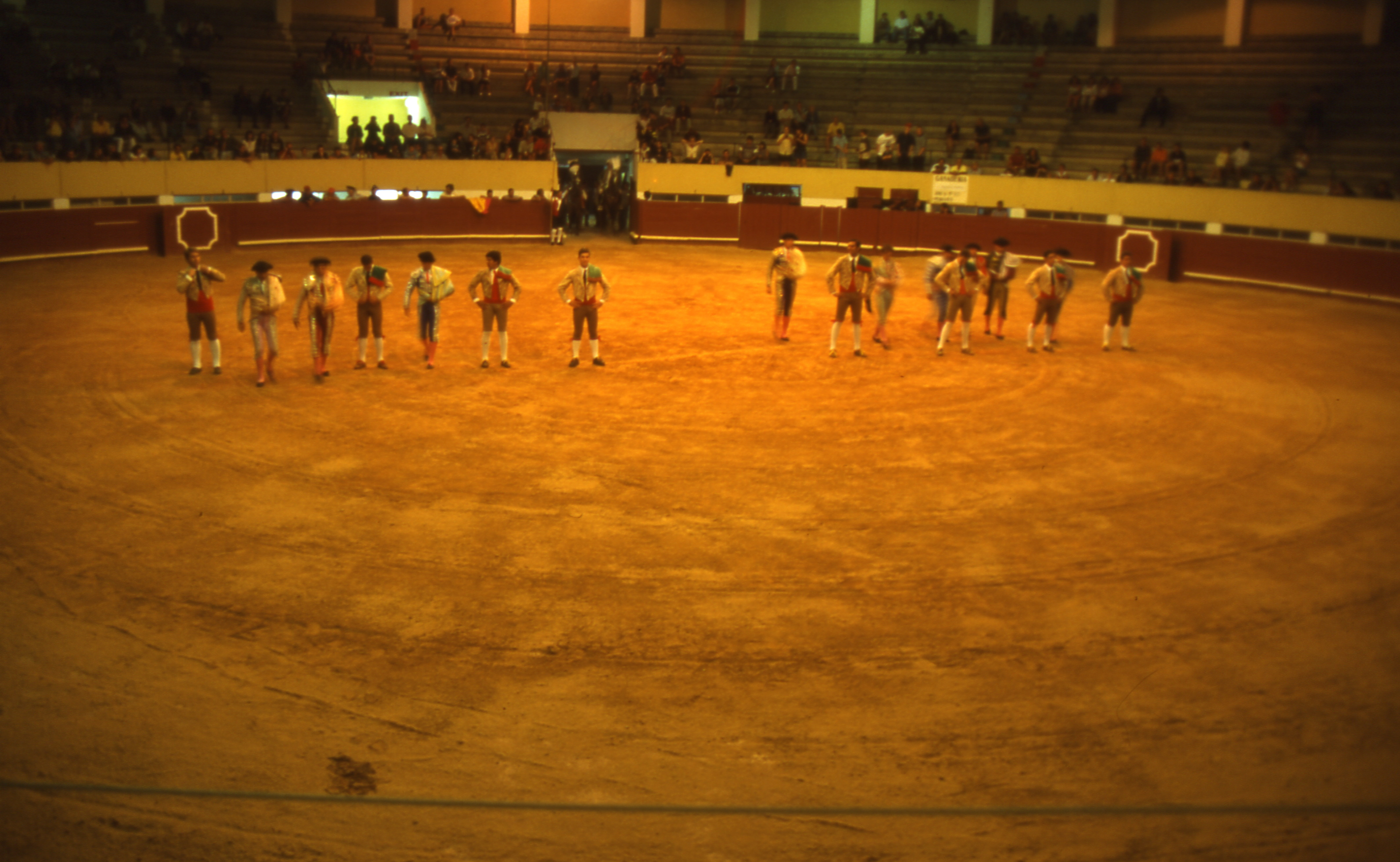 Praça de Touros, Albufeira